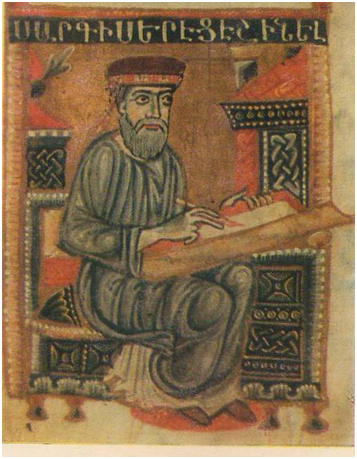 Armenian miniature painter of 14th century Sargis Pitsak